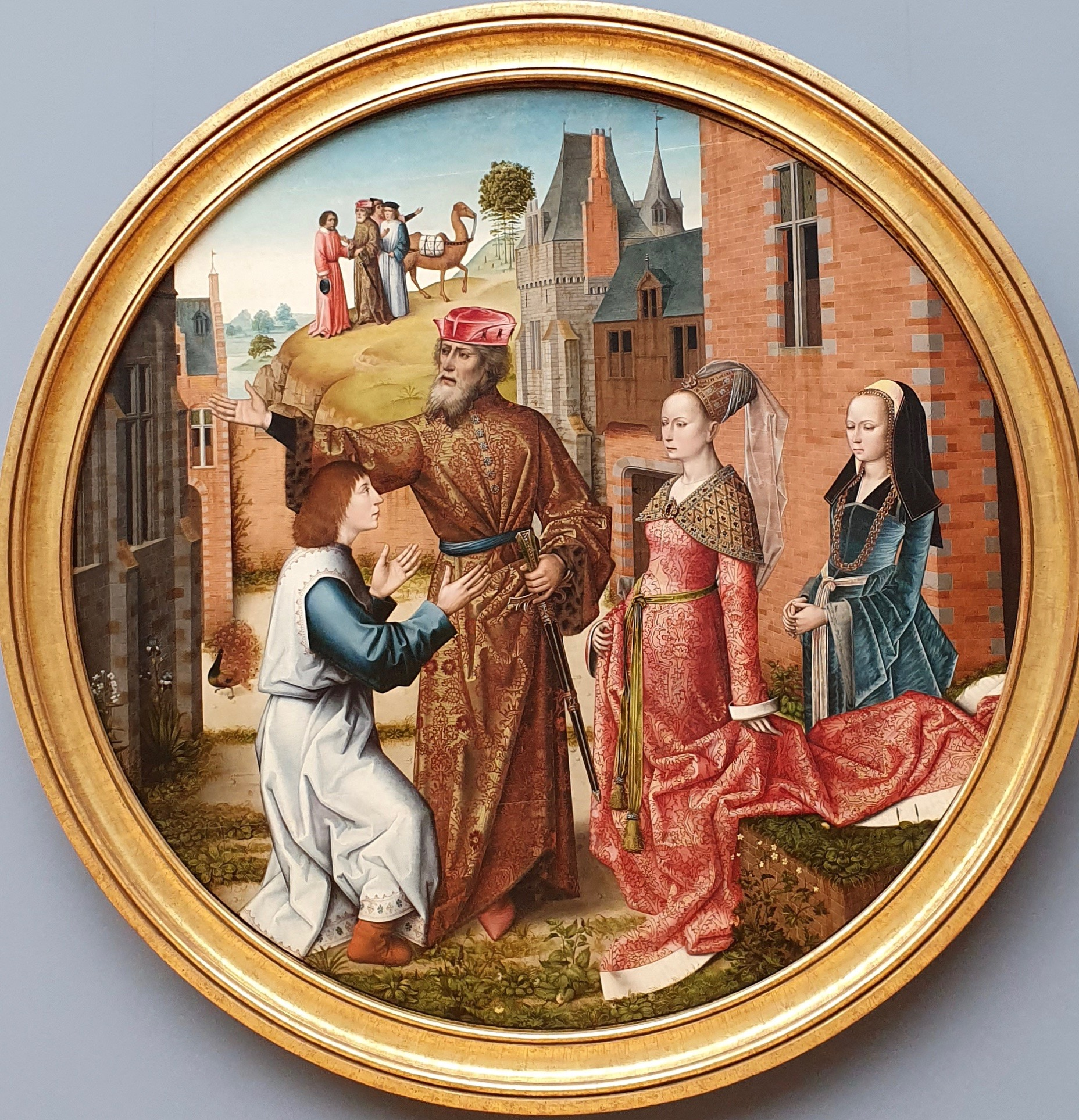 Potiphar Names Joseph Administrator (The Ishmaelites Sell Joseph to Potiphar), Brussels 1490-1500